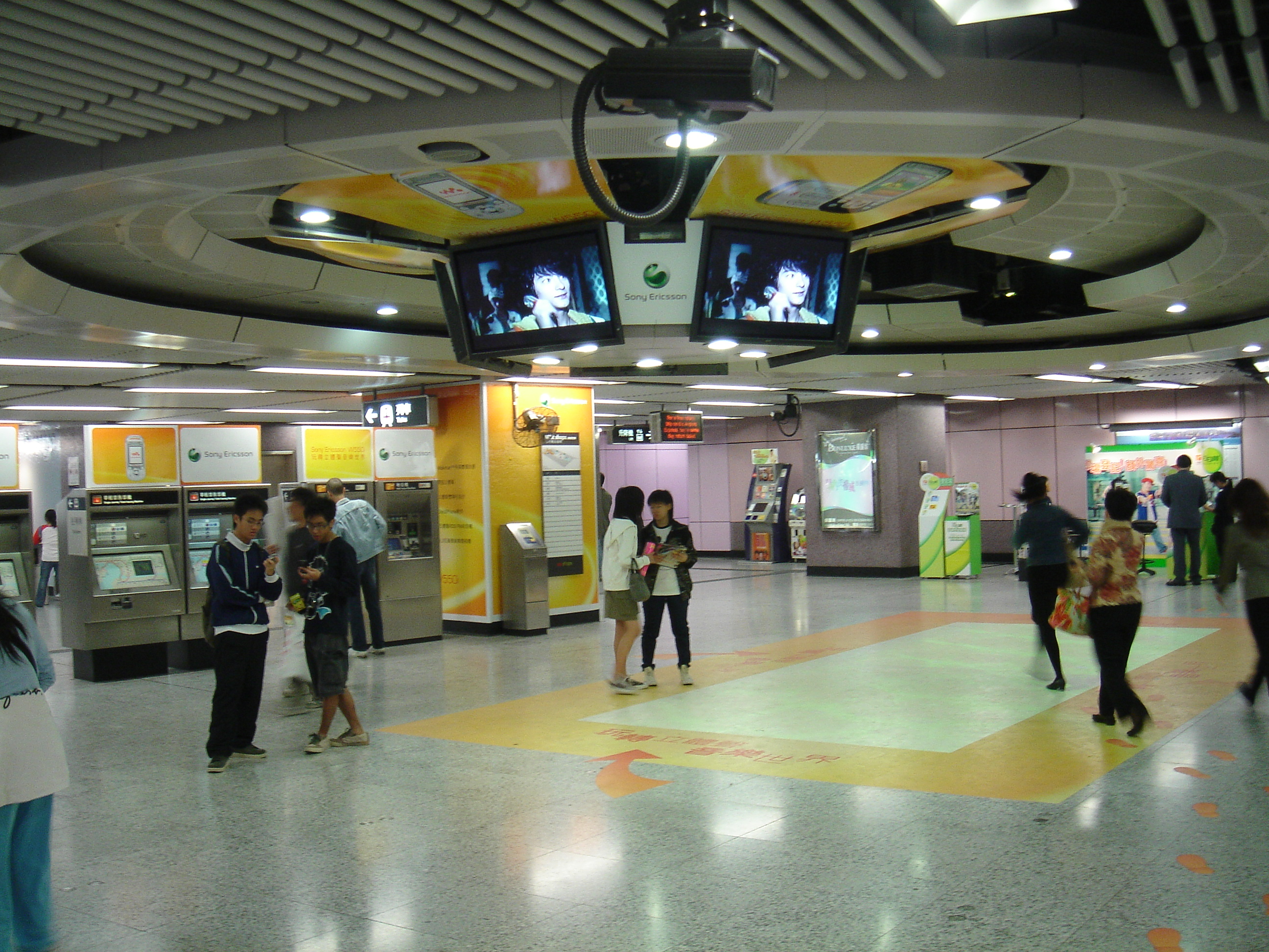 MTR Causeway Bay station east concourse